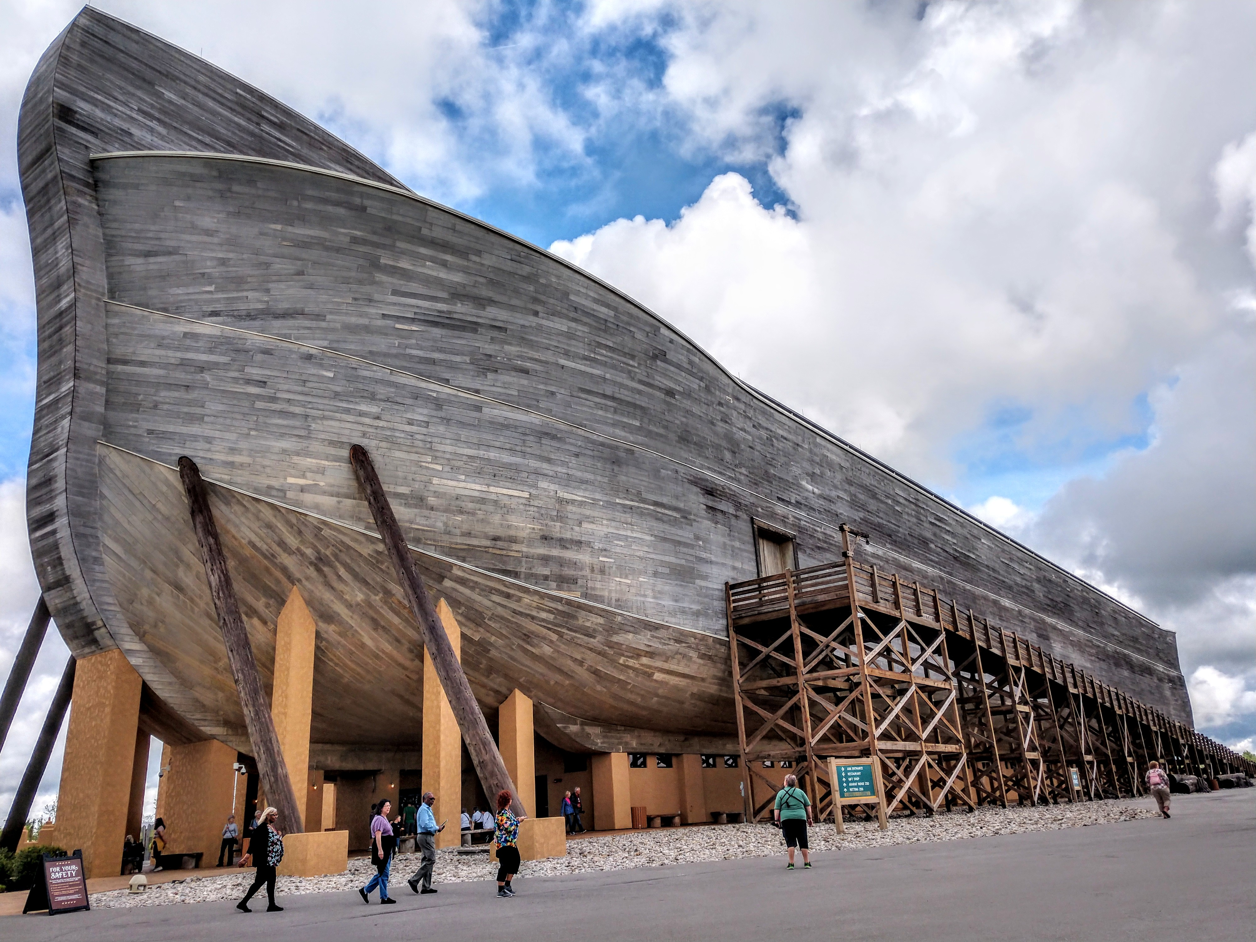 Bow end of Ark Encounter